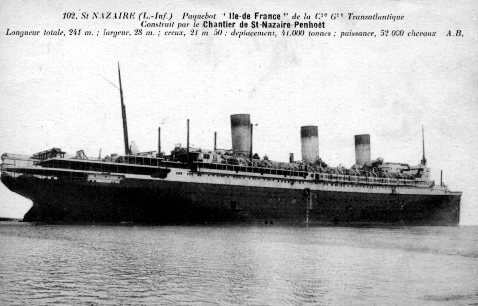 S.S. Ile de France